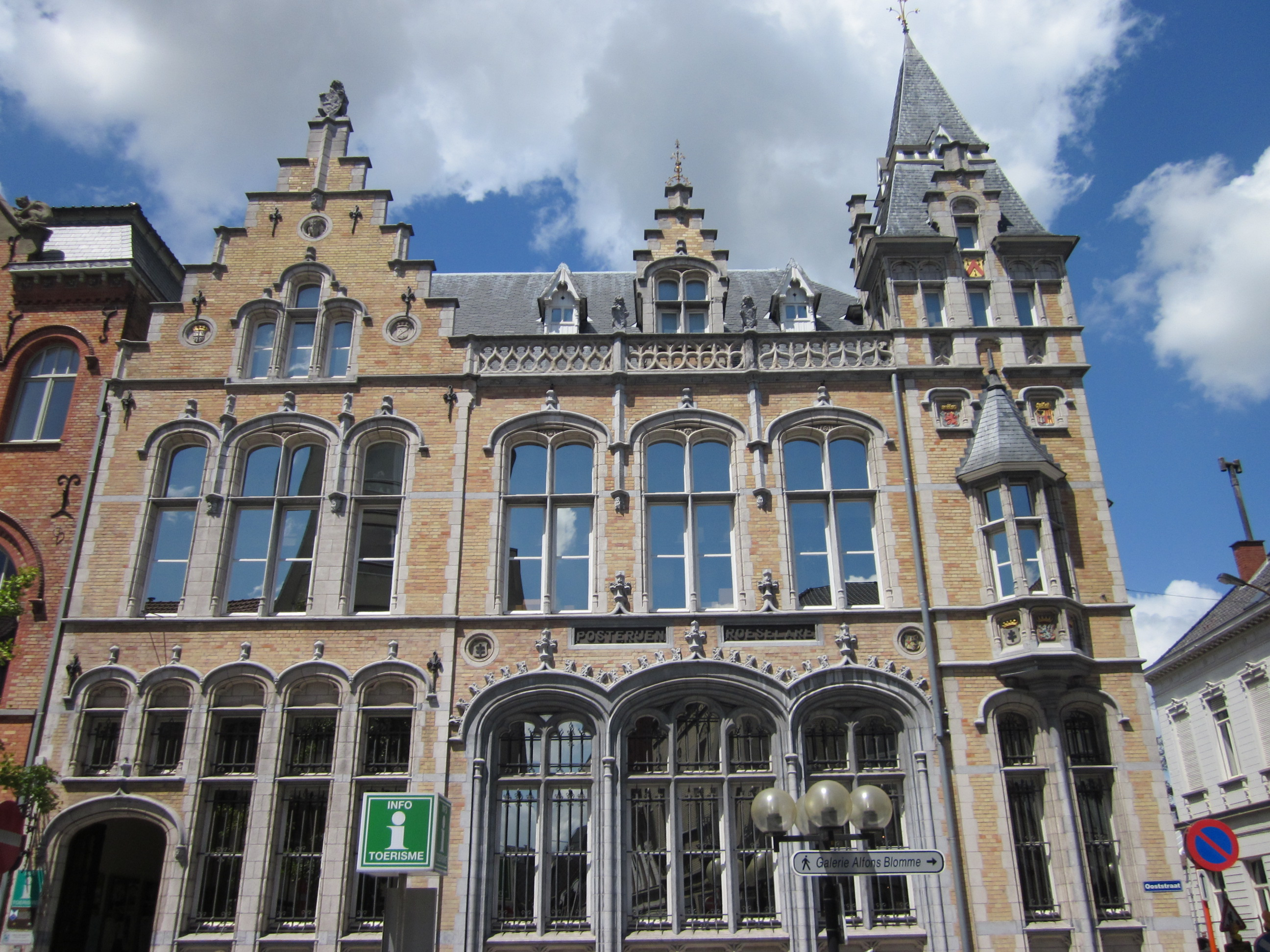 Former post office in Roeselare built in 1902, now tourist office